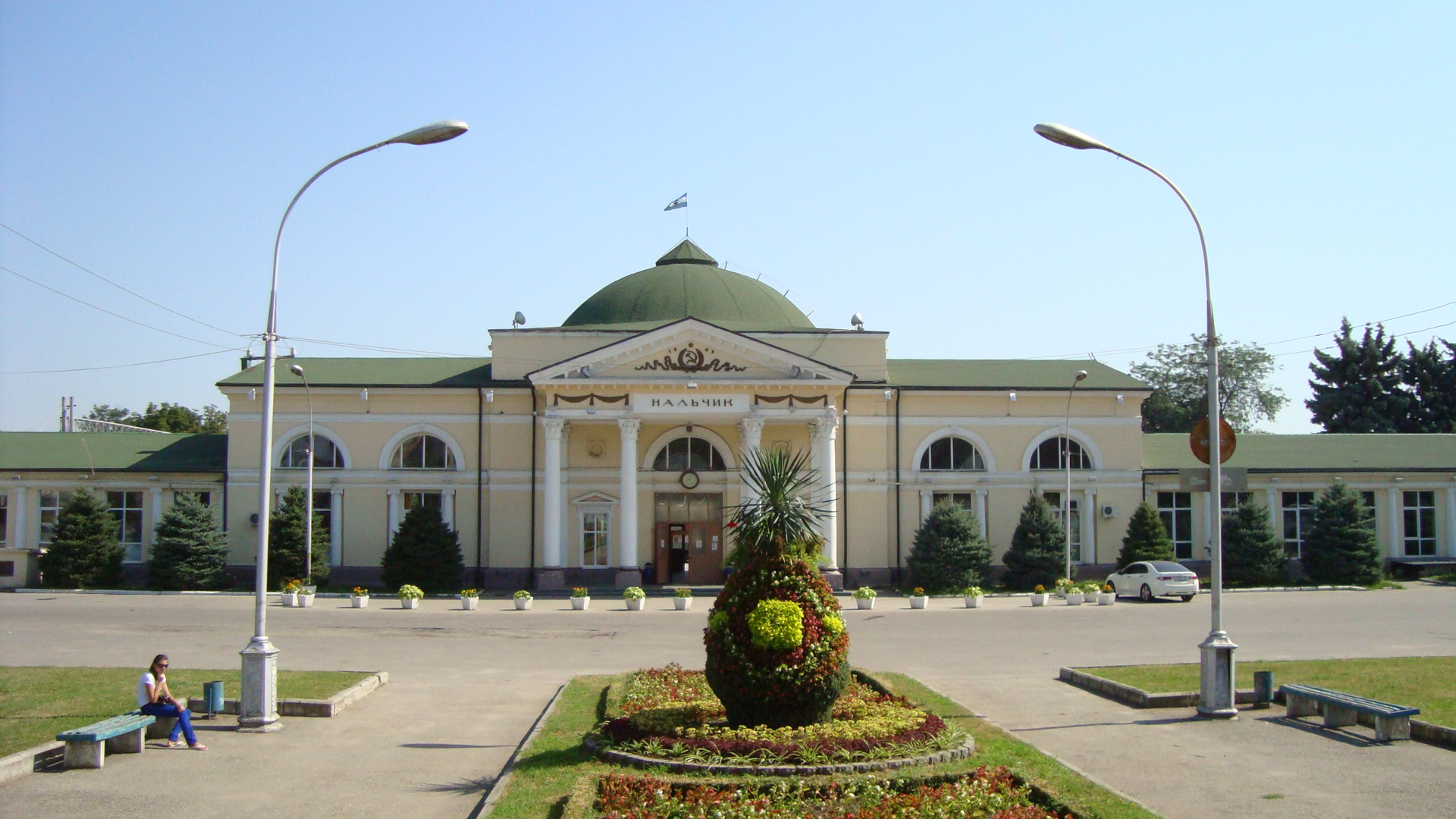 The building of the railroad station in Nalchik.